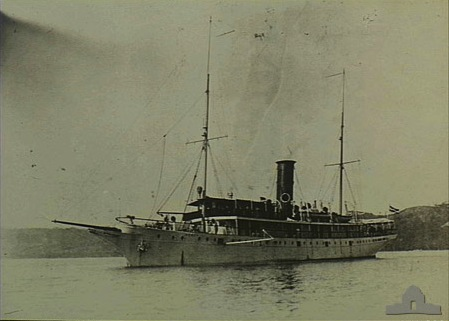 AWM Caption: Rabaul, New Britain. 31 July 1917. The patrol vessel HMAS Una, formerly the German Administrative vessel SMS Komet which was captured by the Australian Navy & Military Expeditionary Force (AN&MEF) in 1912.